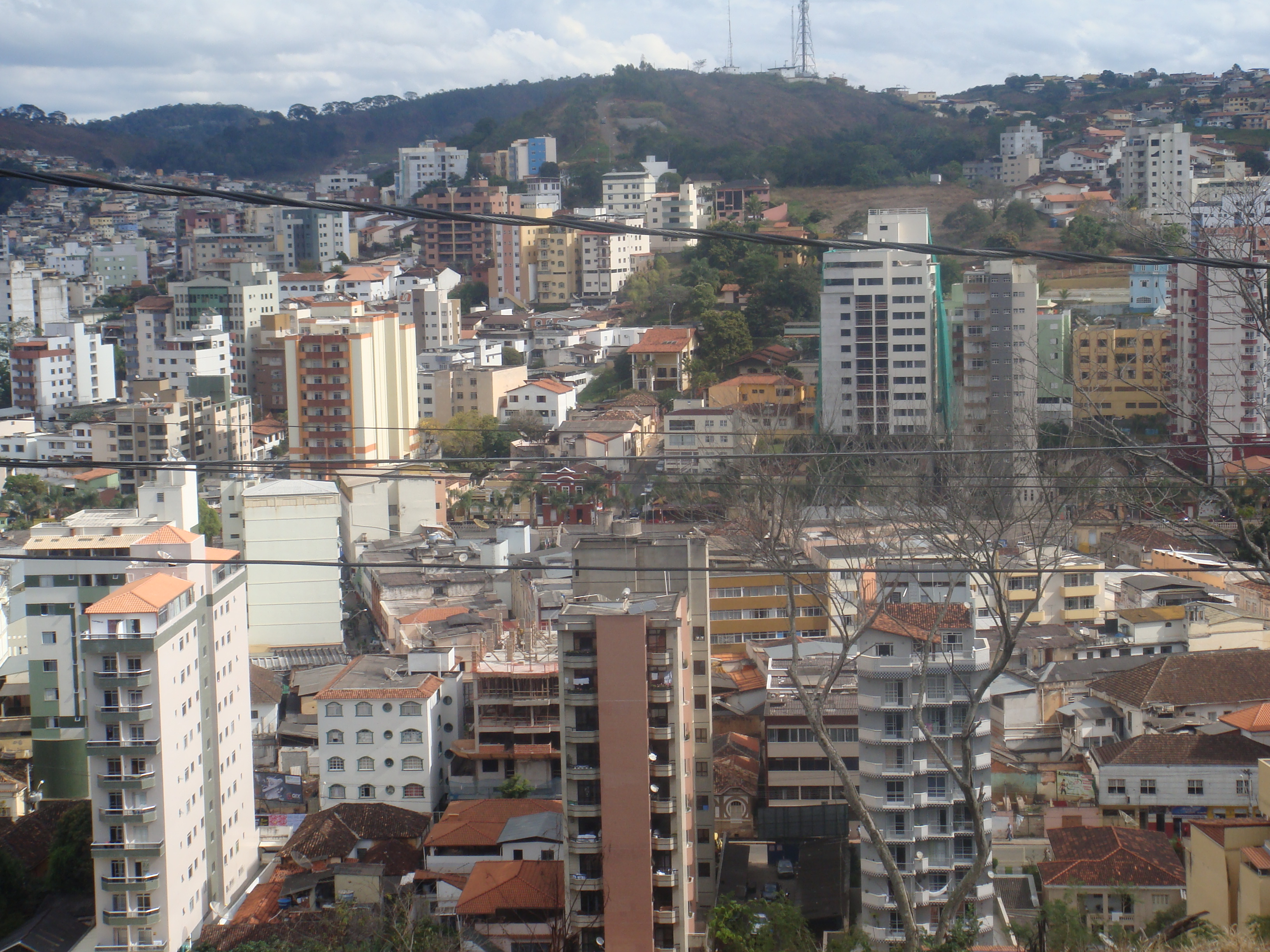 Vista Parcial do Centro de Viçosa